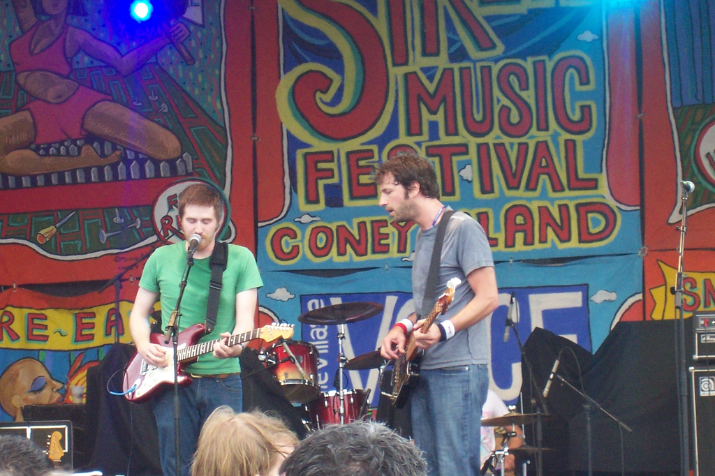 Tapes 'n Tapes performing at the Siren Music Festival.